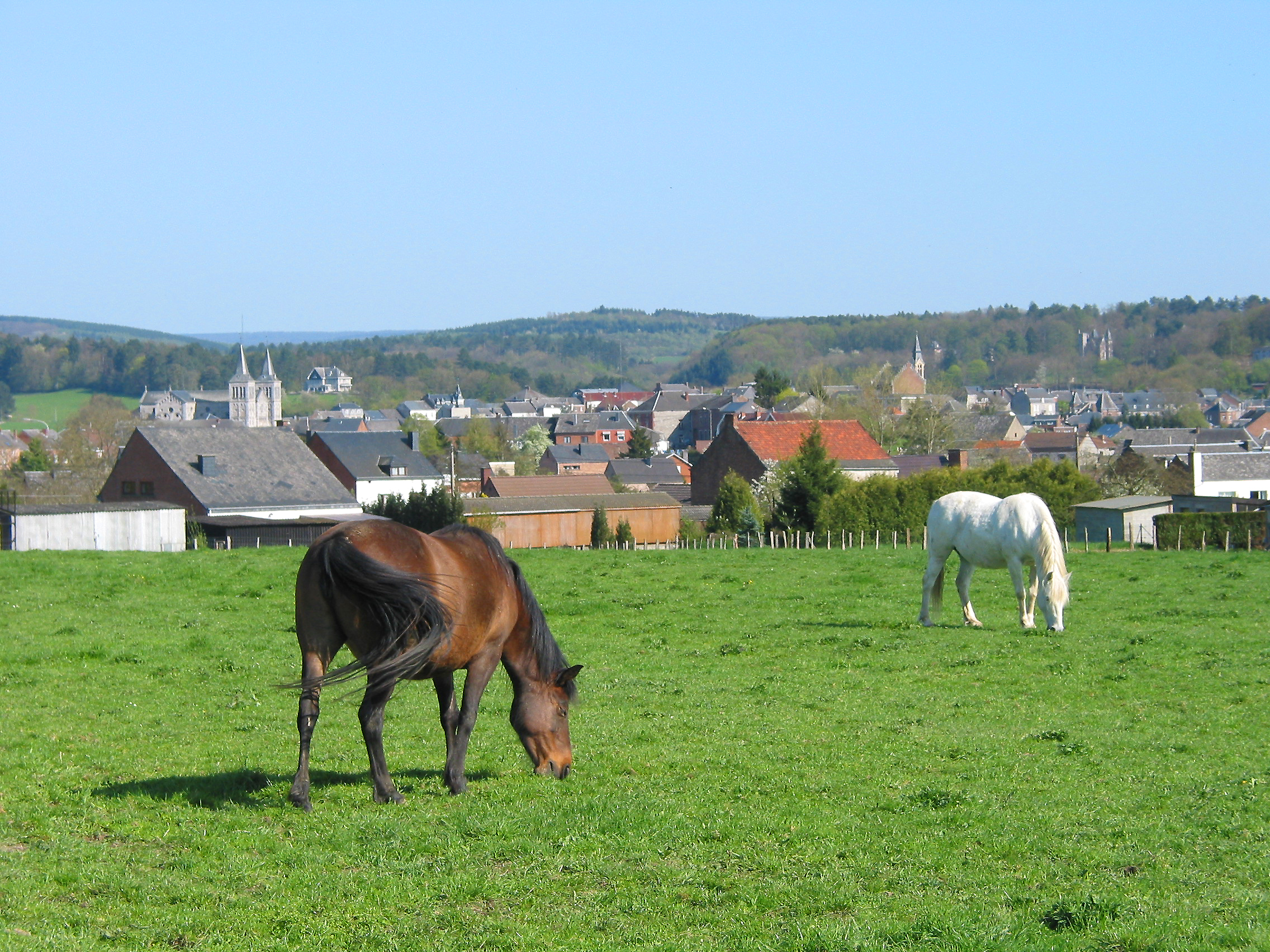 Rochefort (Belgique), view on the city.